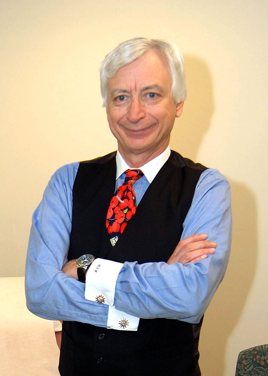 Michael F. Holick gave me the permission to use this photo for his wikipedia article.